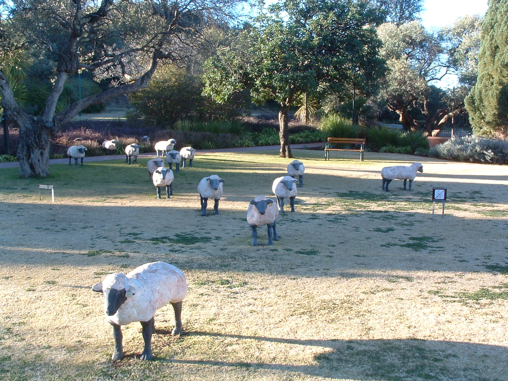 Bloemfontein public park in the city centre (South Africa)